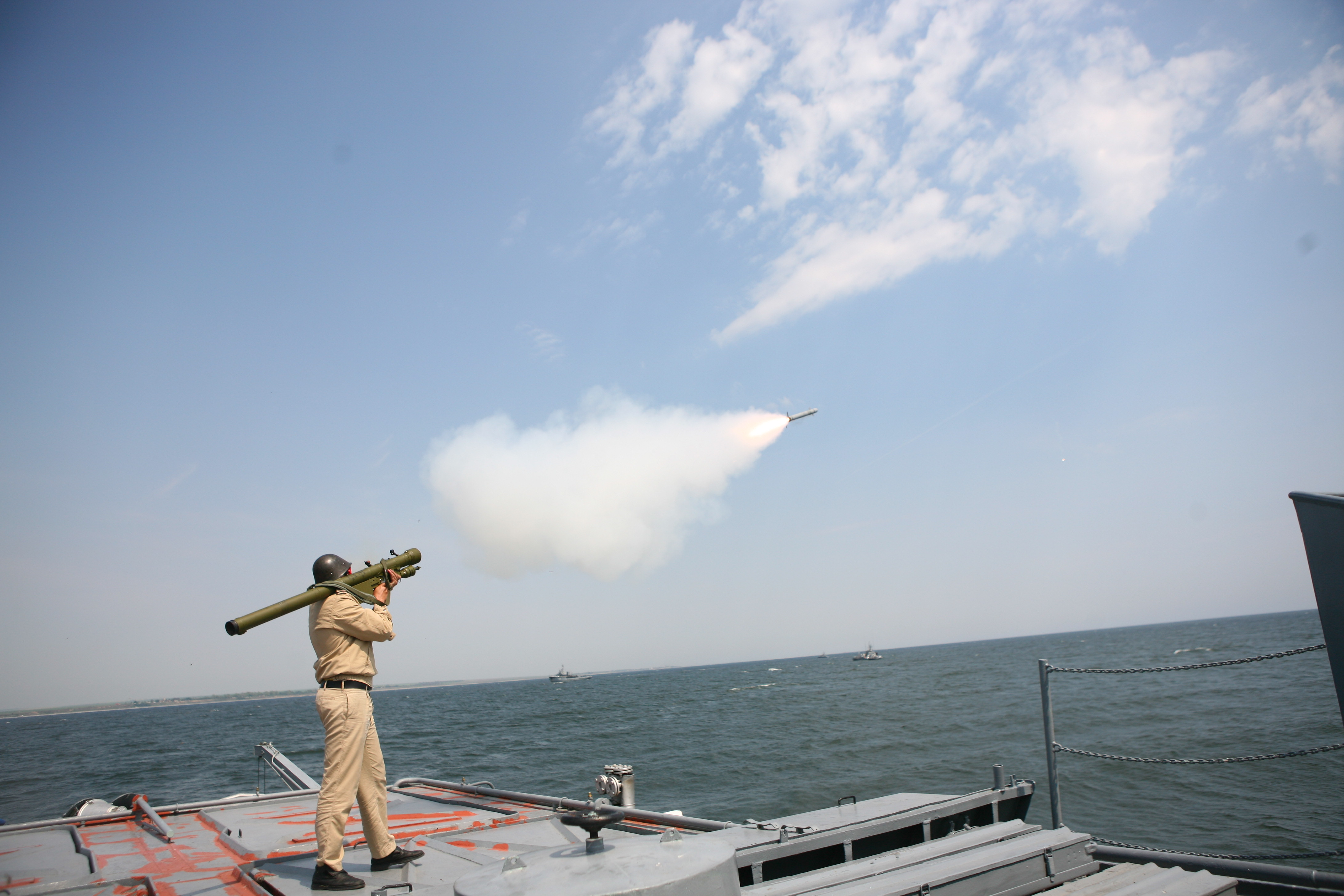 Romanian CA-94 MANPADS (licensed built SA-7)